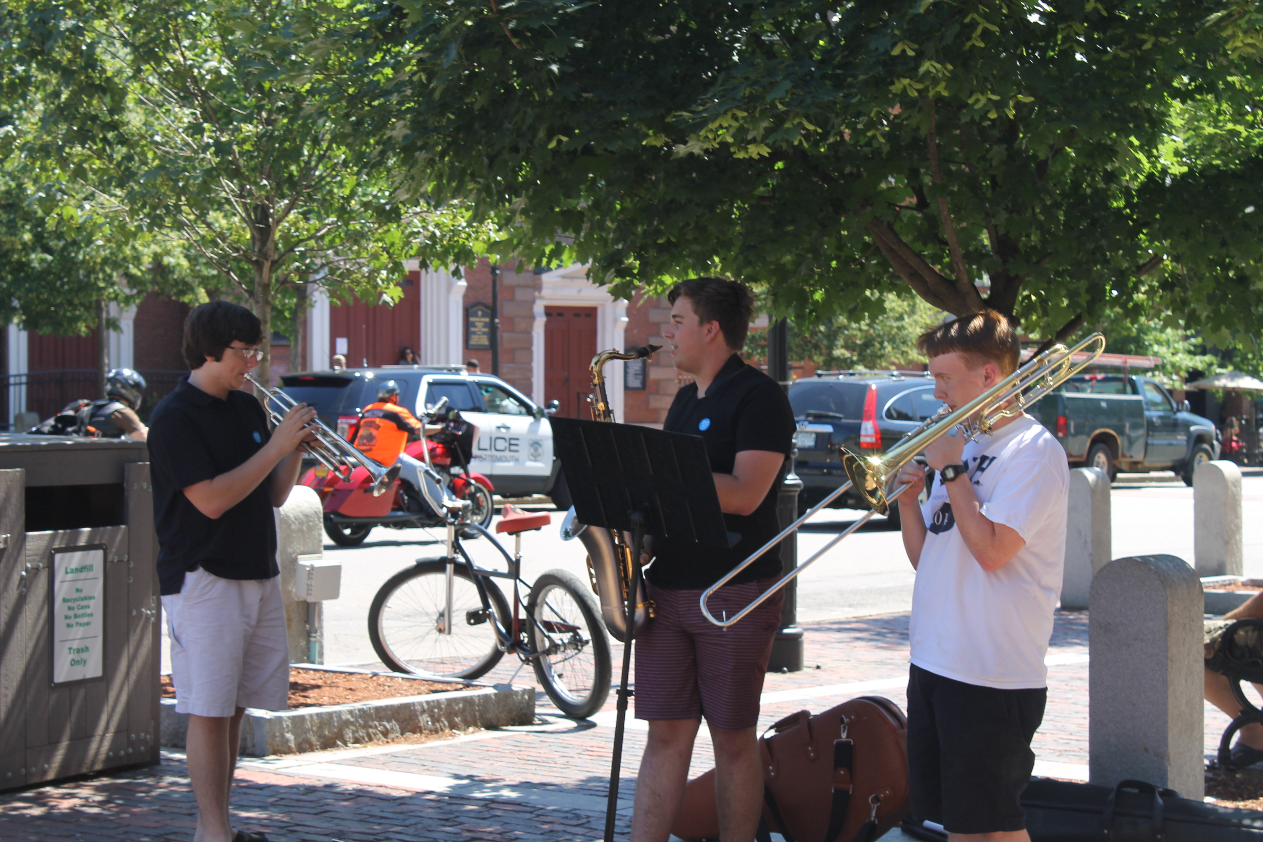 I took photo of young street musicians in Portsmouth, NH, with Canon camera.